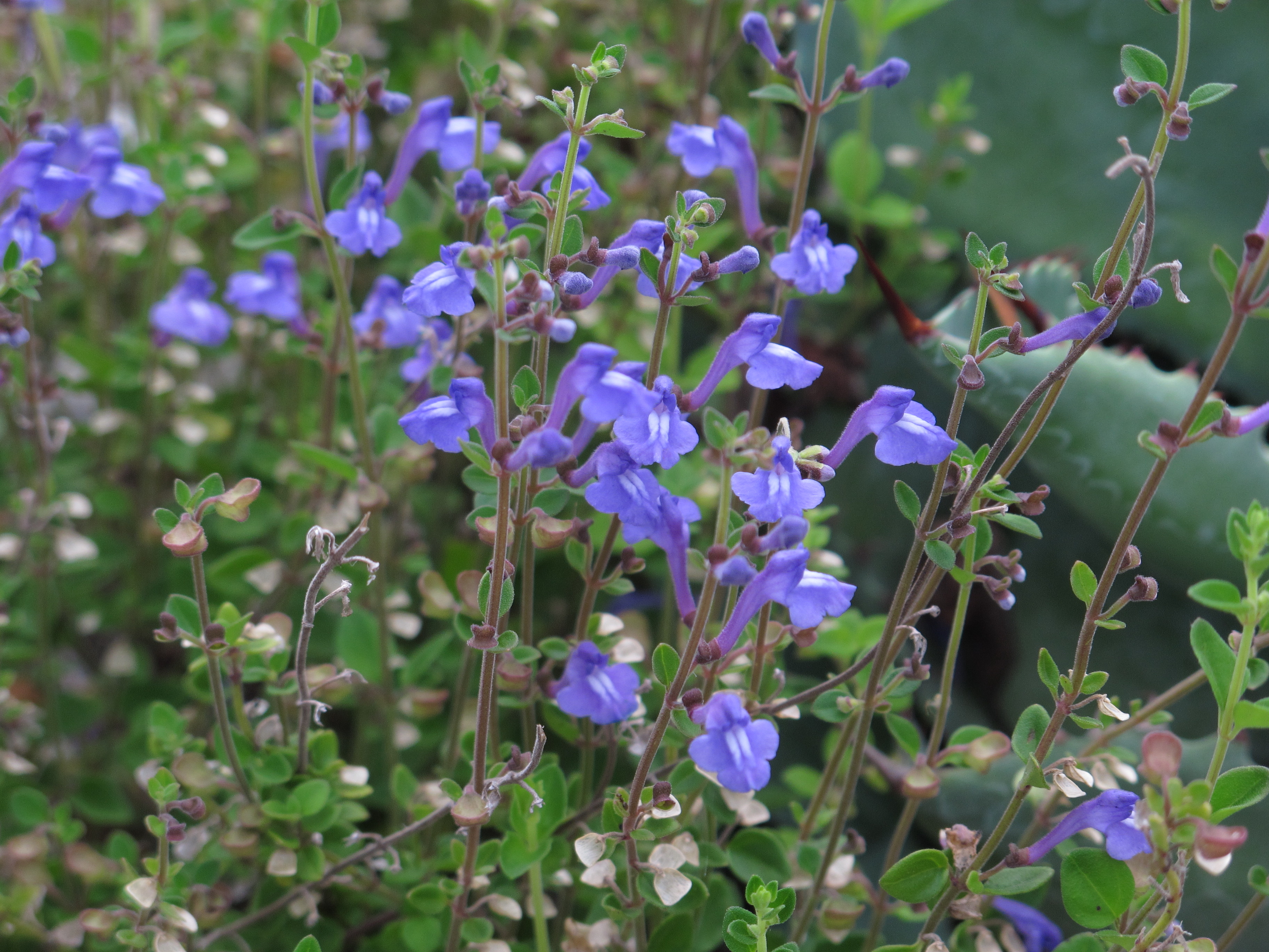 cultivated, South Miami, Florida. I just love these delicate, small bluish flowers.